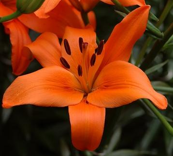 An orange lily, also called an orange pixie, Lilium bulbiferum.